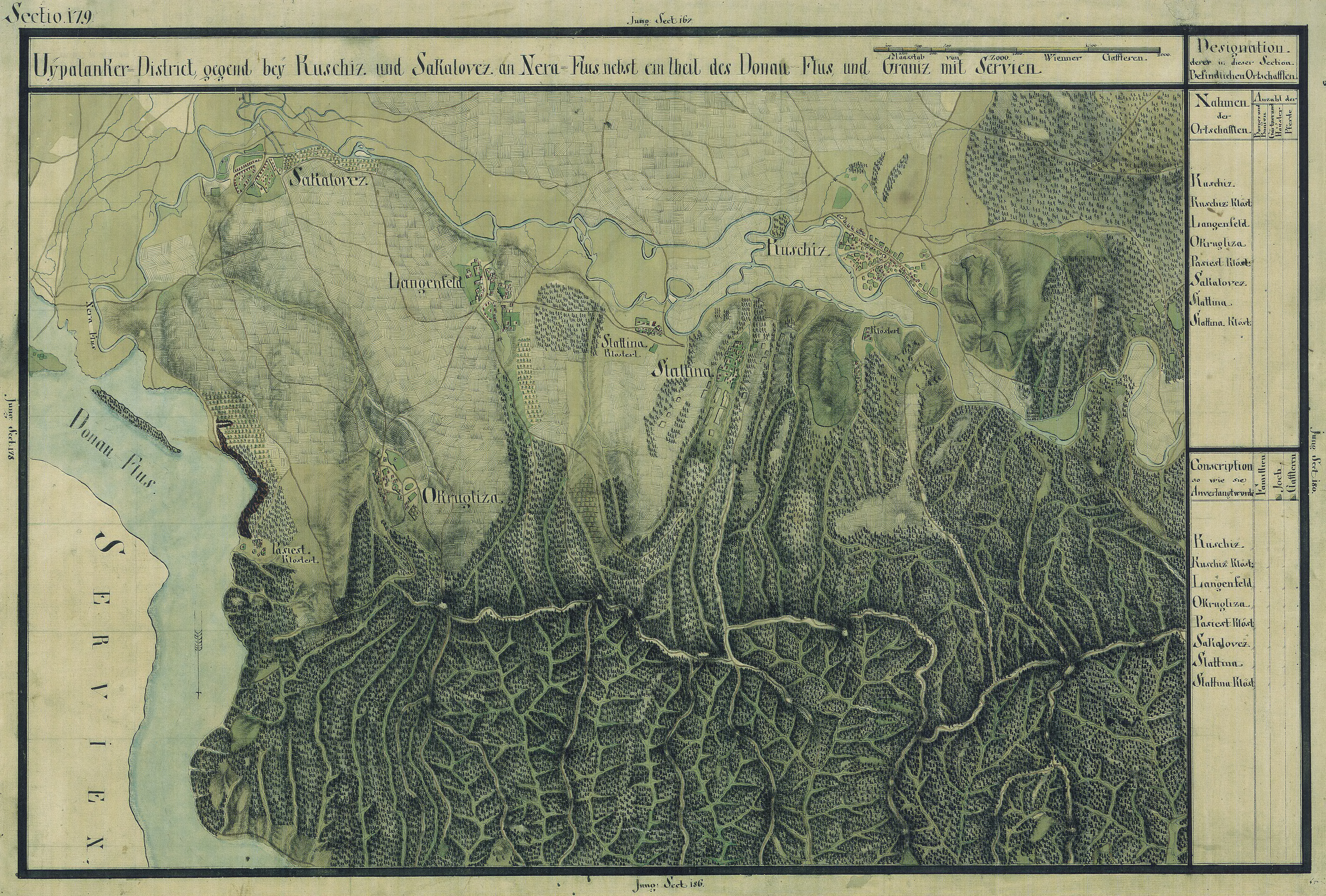 The Banat region in the cadastral maps: Josephinische Landesaufnahme, 1769-72. Josephinische Landaufnahme pg179